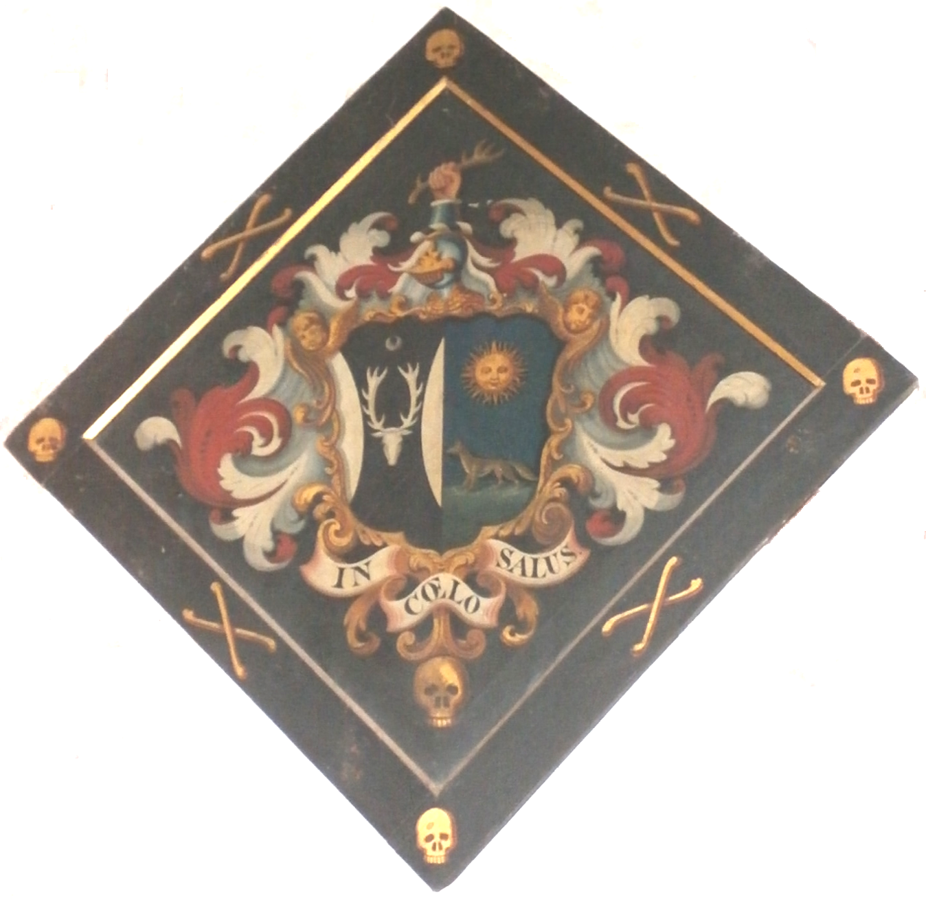 Funerary hatchment of Edmund Montagu Parker (1737–1831) of Whiteway House, near Chudleigh and of Blagdon in the parish of Paignton, both in Devon, Sheriff of Devon in 1789. St John's Church, Paignton, affixed high up on the south wall of the nave. It displays the arms of Parker Sable, a stag's head cabossed between two flaunches argent (with a crescent for the difference of a second son) impaling Azure, a fox statant on grass proper in chief a sun in spendour or (Ourry, the last two words being canting). He married Charity Ourry (1752–1786), daughter of Admiral Paul Henry Ourry (1719–1783) of Plympton House in the parish of Plympton St Maurice, Devon, MP for Plympton Erle 1763–1775 and Commissioner for Plymouth Dockyard. Above is the crest of Parker: A cubit arm erect vested azure cuffed argent the hand holding a stag's antler proper. Below is the Latin epitaph In Caelo Salus ("Salvation is in Heaven"). Below is a skull. The frame is decoated with skulls and crossbones. (Source: Summers, Peter & Titterton, John, (eds.), Hatchments in Britain, Vol.7: Cornwall, Devon, Dorset, Gloucestershire, Hampshire, Isle of Wight and Somerset; Phillimore Press, Chichester, Sussex, 1988, p.28)